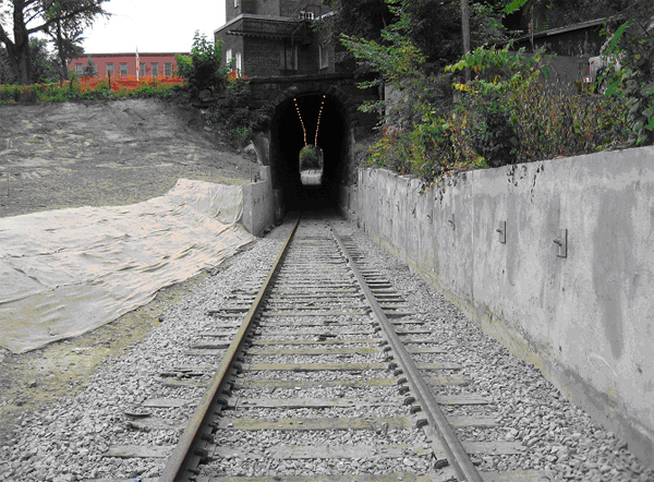 Northern Portal of the Bellows Falls Rail Tunnel